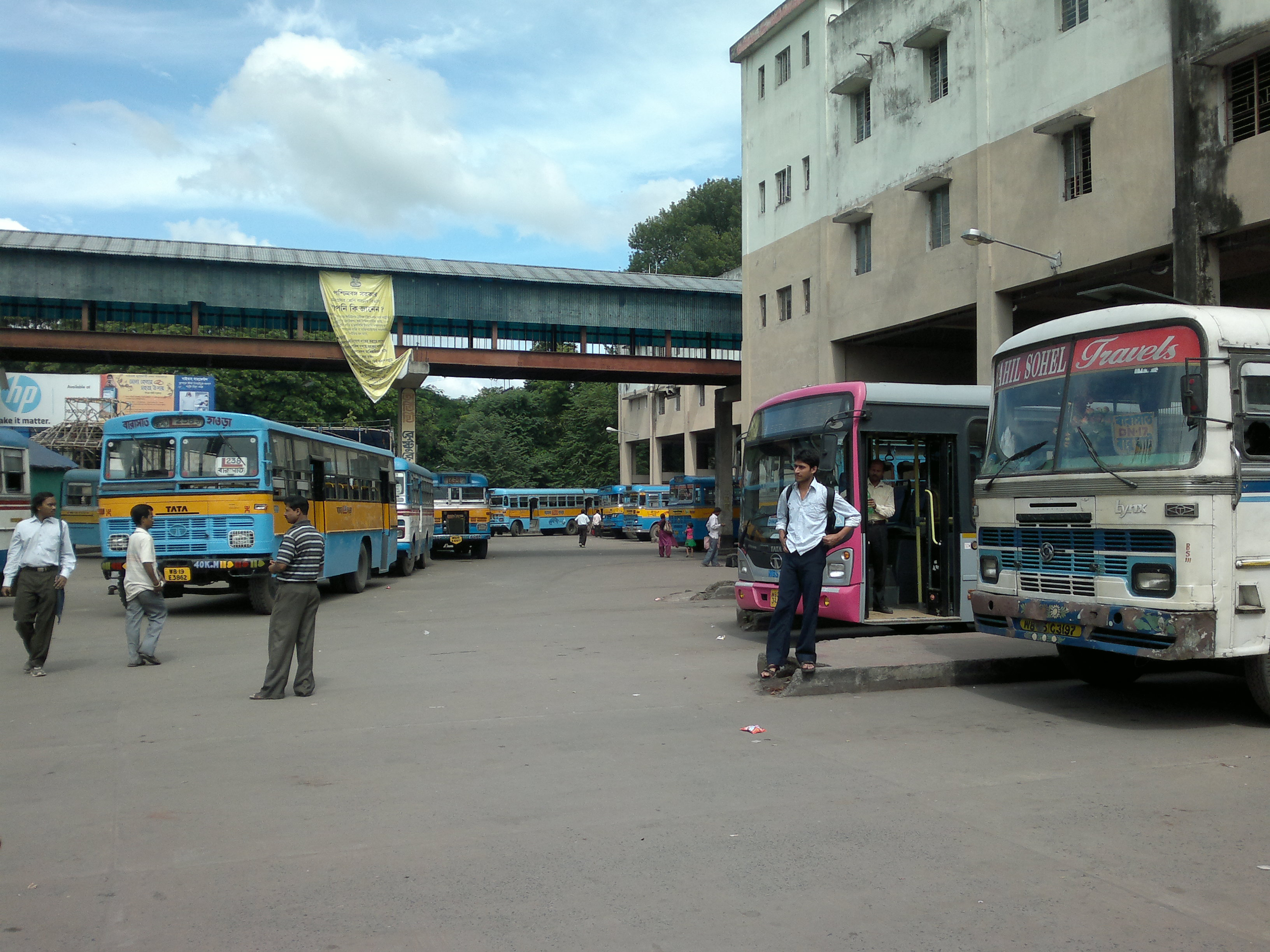 Barasat Central Bus Terminus